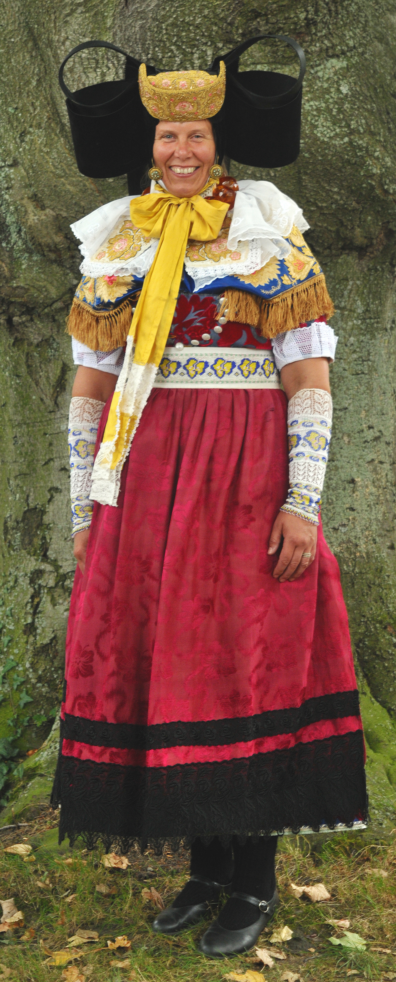 This "Bückeburger Tracht" was formerly worn by women on festive days in the town Bückeburg and in the surroundings of the town in Lower Saxony. Tracht is the traditional costume and dress in German-speaking countries and areas.